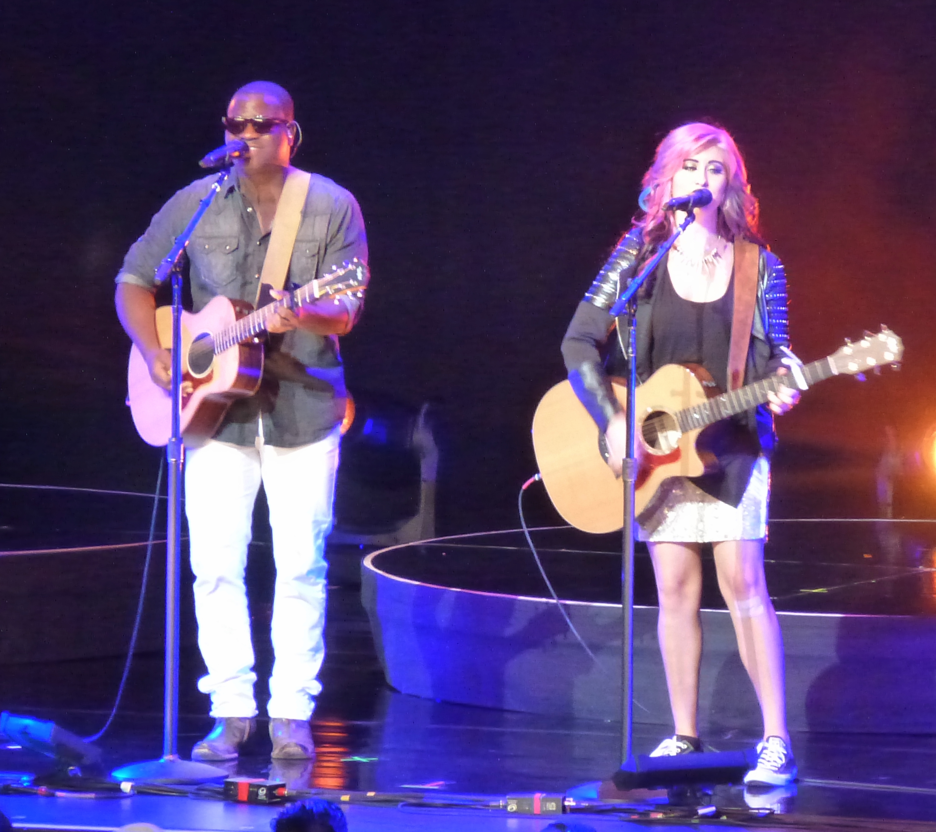 American music artists C.J. Harris (left) and Jessica Meuse (right) performing at Wolf Trap in Vienna, Virginia during the 2014 American Idol season 13 tour.